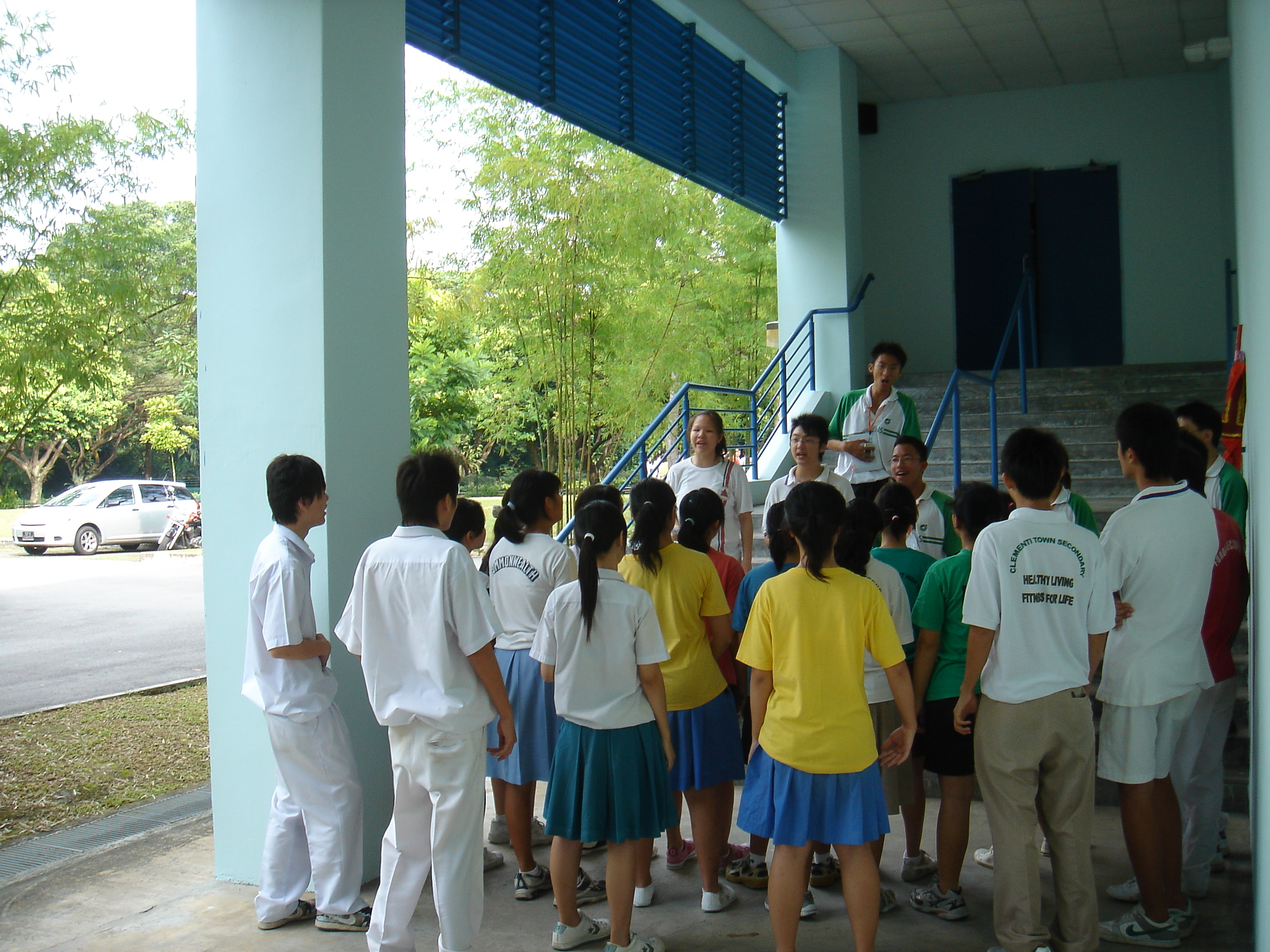 Student Orientation Programme, Provisional Admission Exercise, 2006 batch.